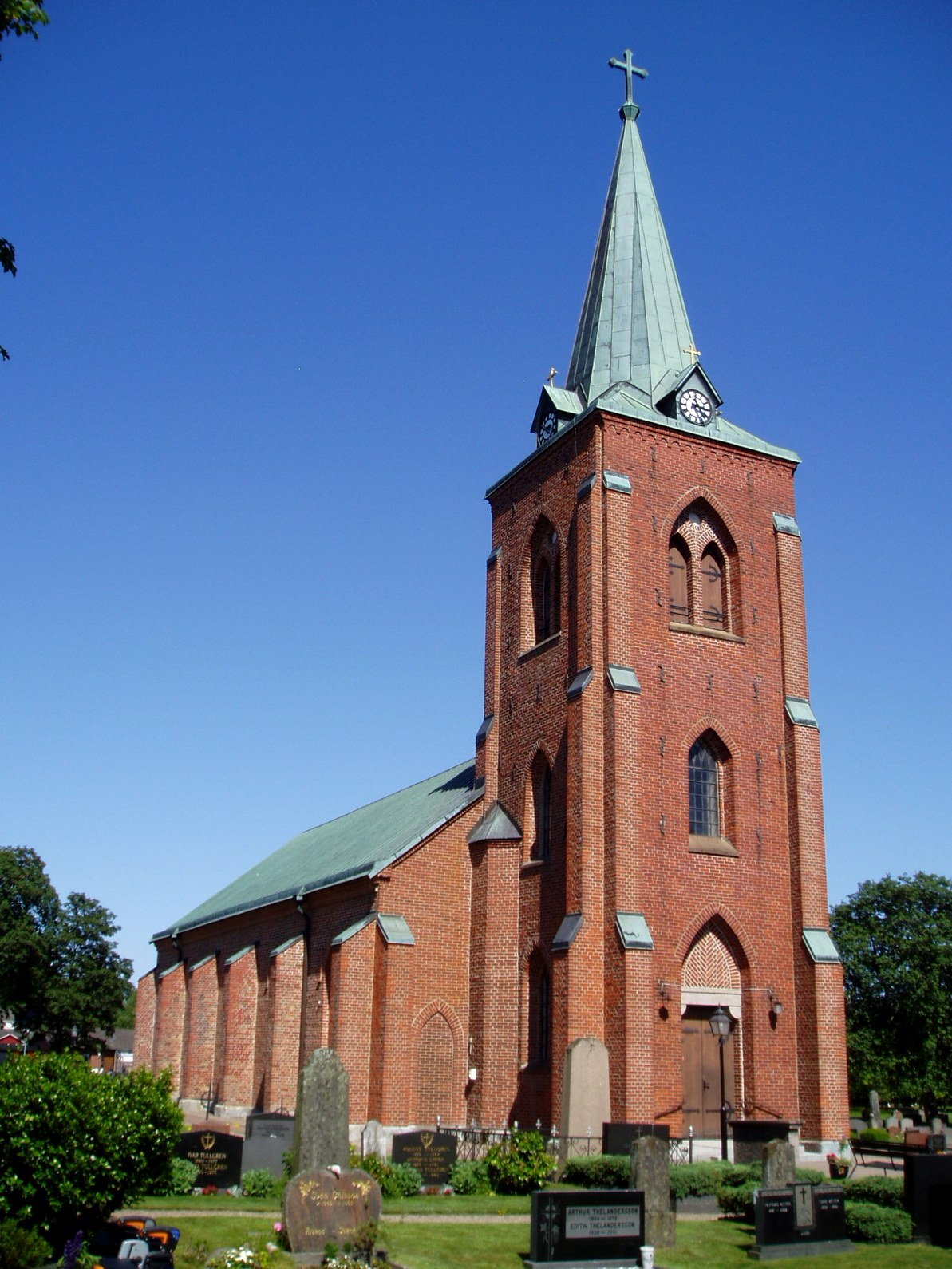 Rya church, Örkeljunga Municipality, Scania, Sweden